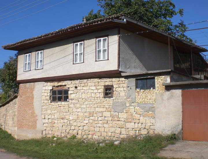 An old house in village Osikovo, Popovo municipality, Bulgaria